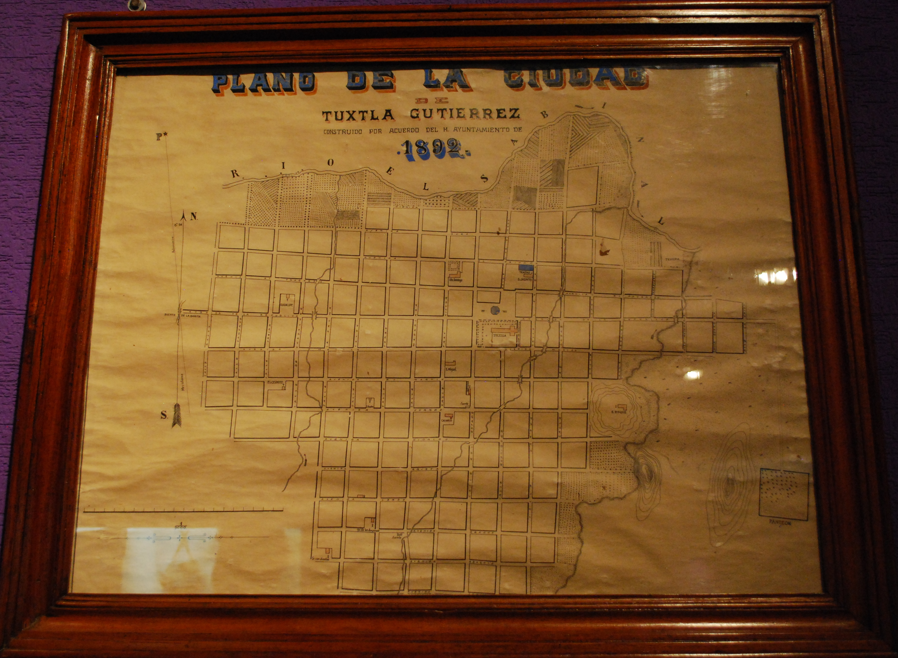 1892 map of Tuxtla Gutierrez on display at the Regional Museum in Tuxtla Gutierrez, Chiapas, Mexico